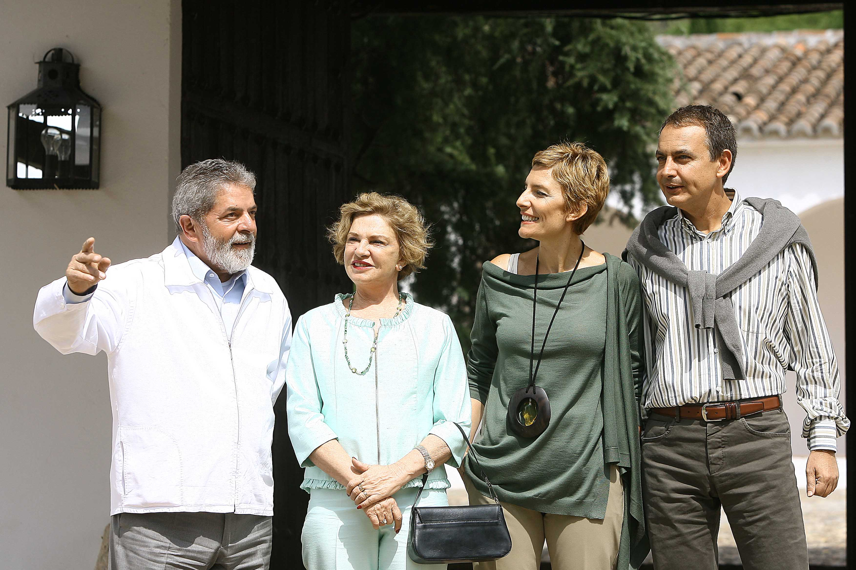 Brazilian President Lula da Silva and Spanish Prime Minister Zapatero, with their wives in Toledo